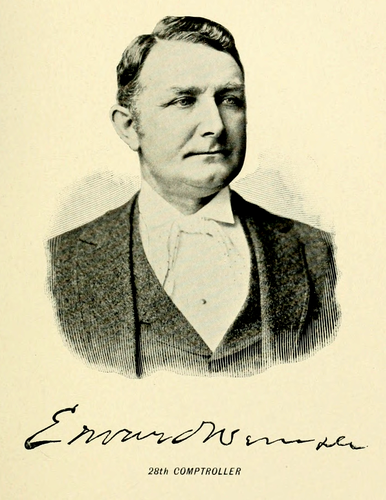 Edward Wemple during his term as New York State Comptroller (1888-1891). Other information Originally from Roberts, James A.; _A Century in the Comptroller's Office, State of New York, 1797 to 1897_; Albany NY, James B. Lyon; 1897. Digitized by Richard J. Shiffer.